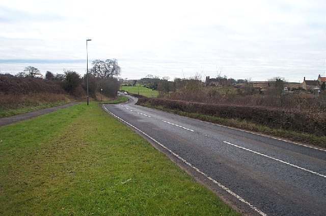 A632 Langwith. A632 road looking south west towards Upper Langwith